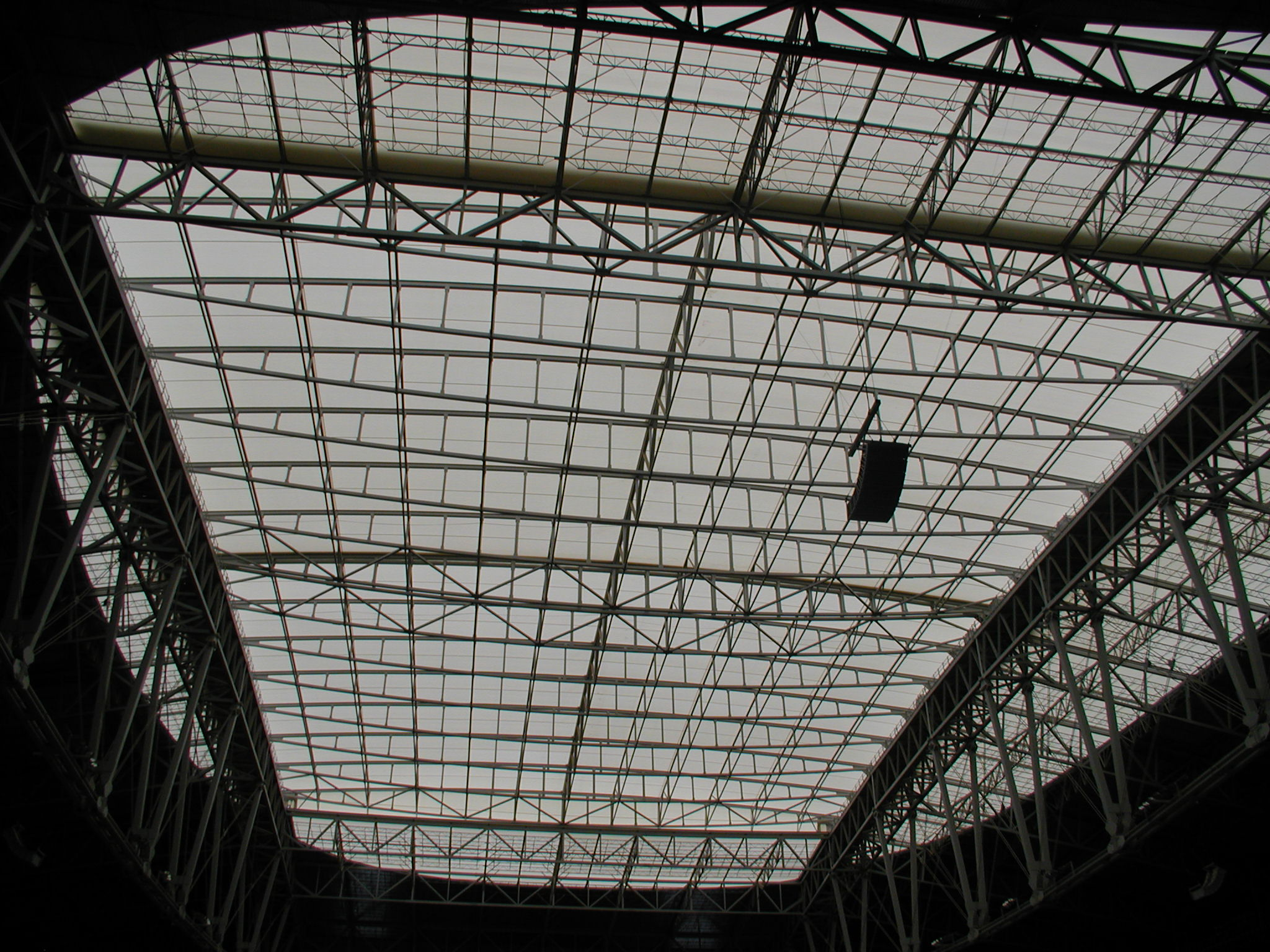 Created by user and released into the public domain.